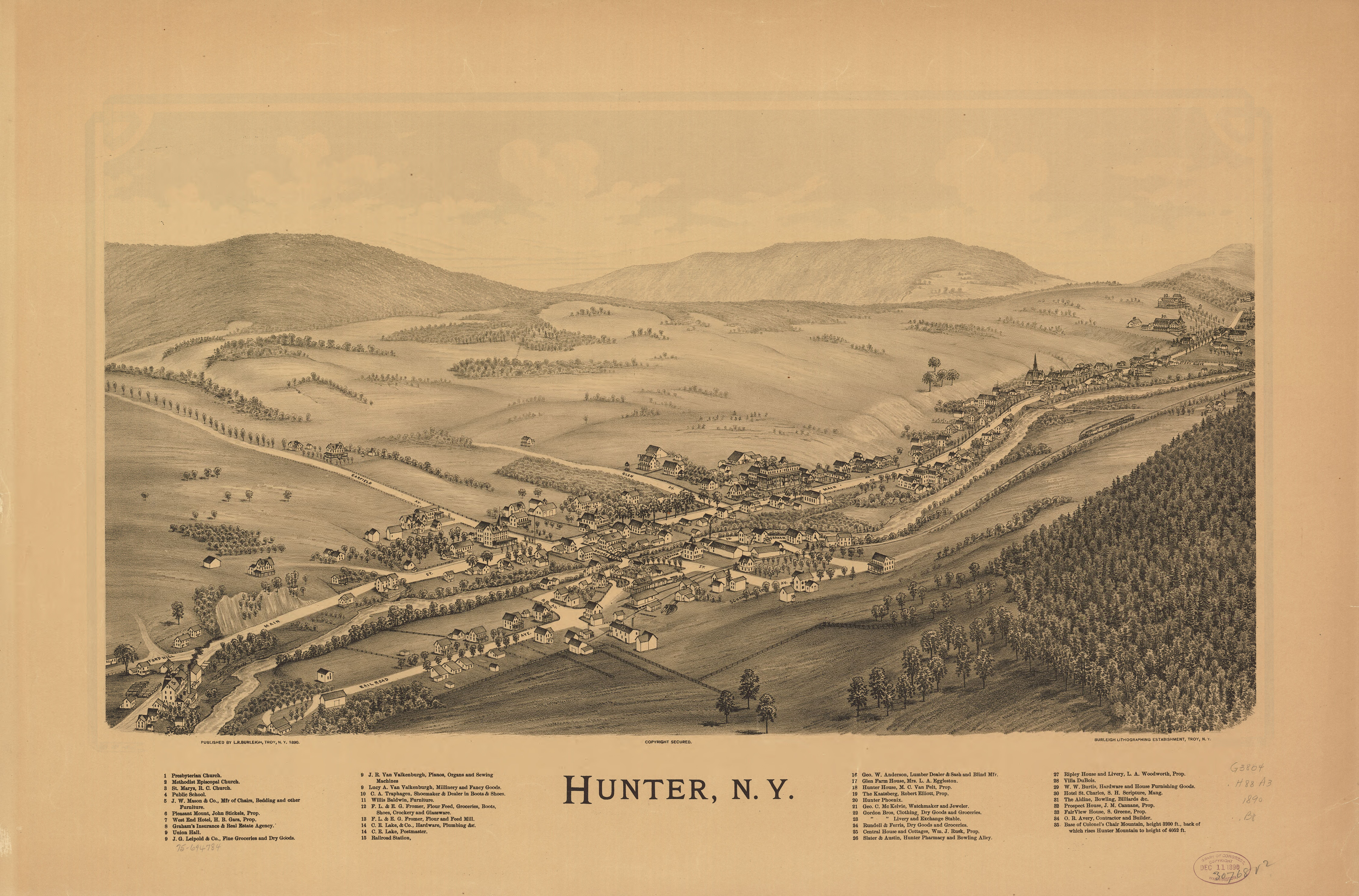 Perspective map not drawn to scale. Bird's-eye-view. LC Panoramic maps (2nd ed.), 573 Available also through the Library of Congress Web site as a raster image. Indexed for points of interest. AACR2